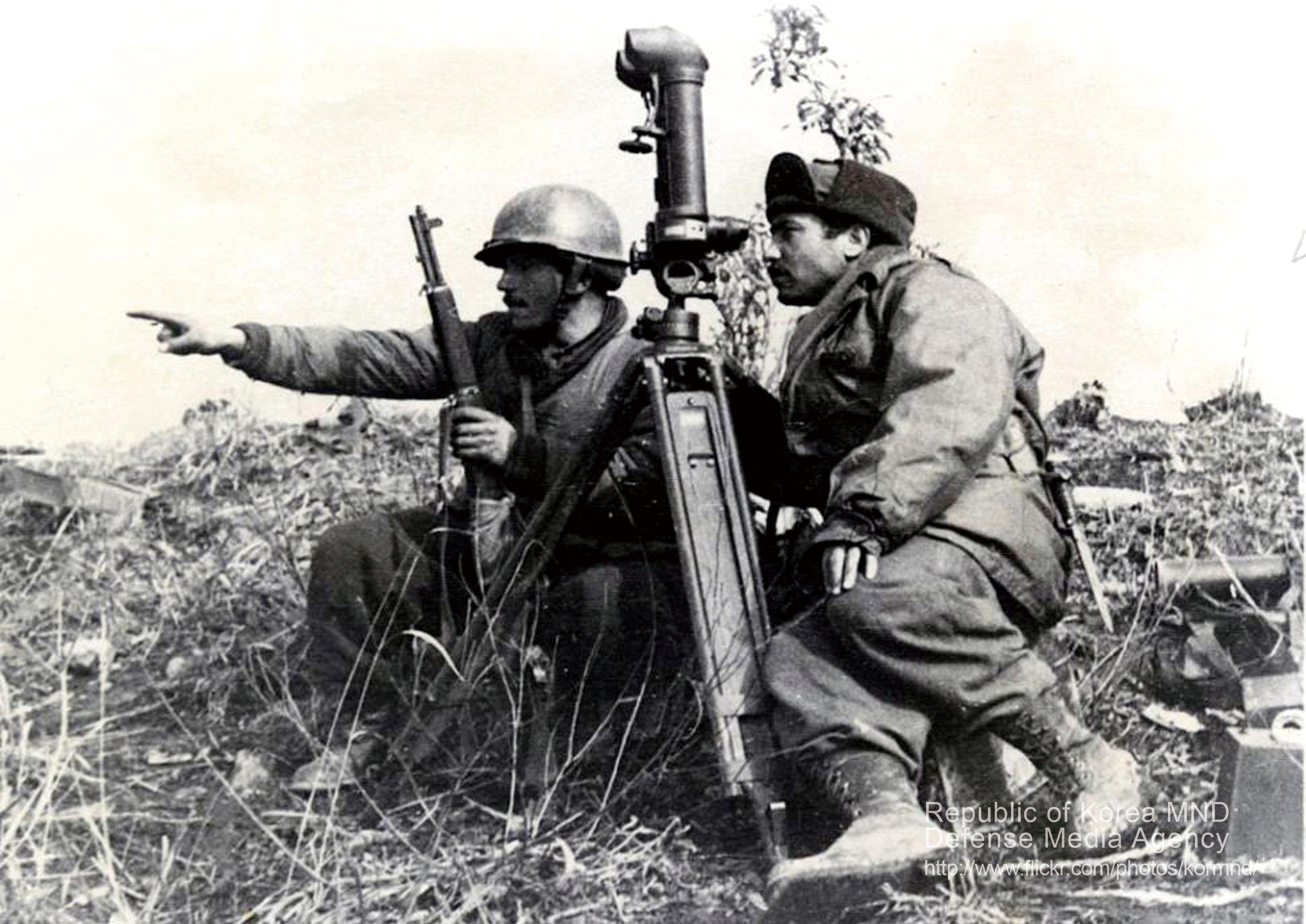 Turkish soldiers on the battlefields.